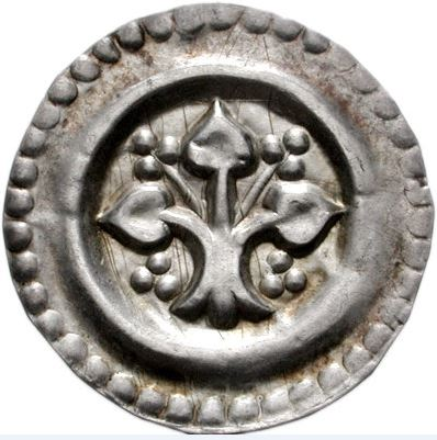 GERMANY, Lindau. Anonymous. 1295-1325. AR Bracteate Pfennig (19mm, 0.32 g). Linden tree with three leaves and four bunches of three berries each in angles / Incuse of obverse. Bonhoff 1832; Kestner 2528. EF.